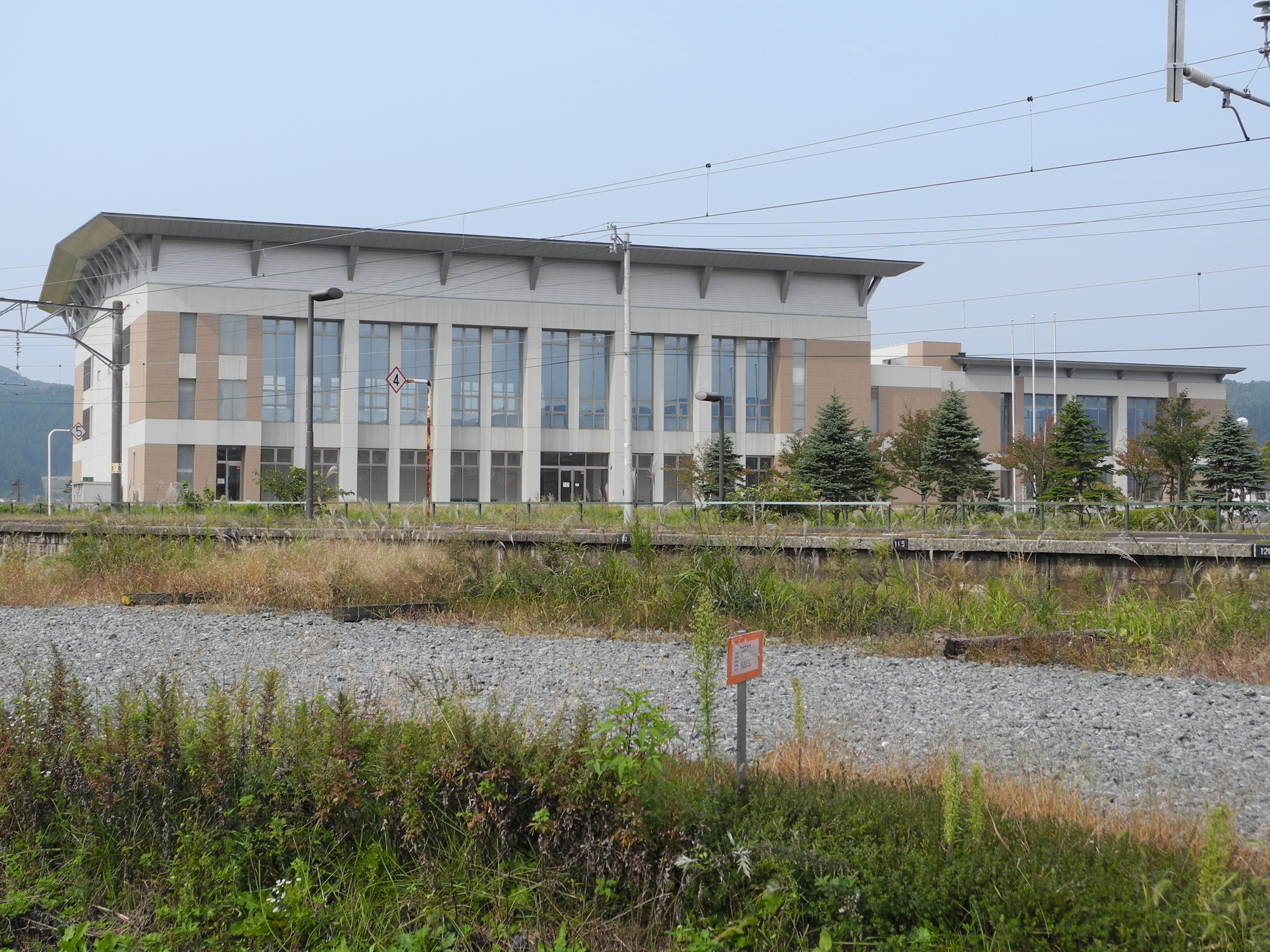 Yurihonjo Sogo Taiikukan, a large community gymnasium. Ouchi, Yurihonjo, Akita, Japan.